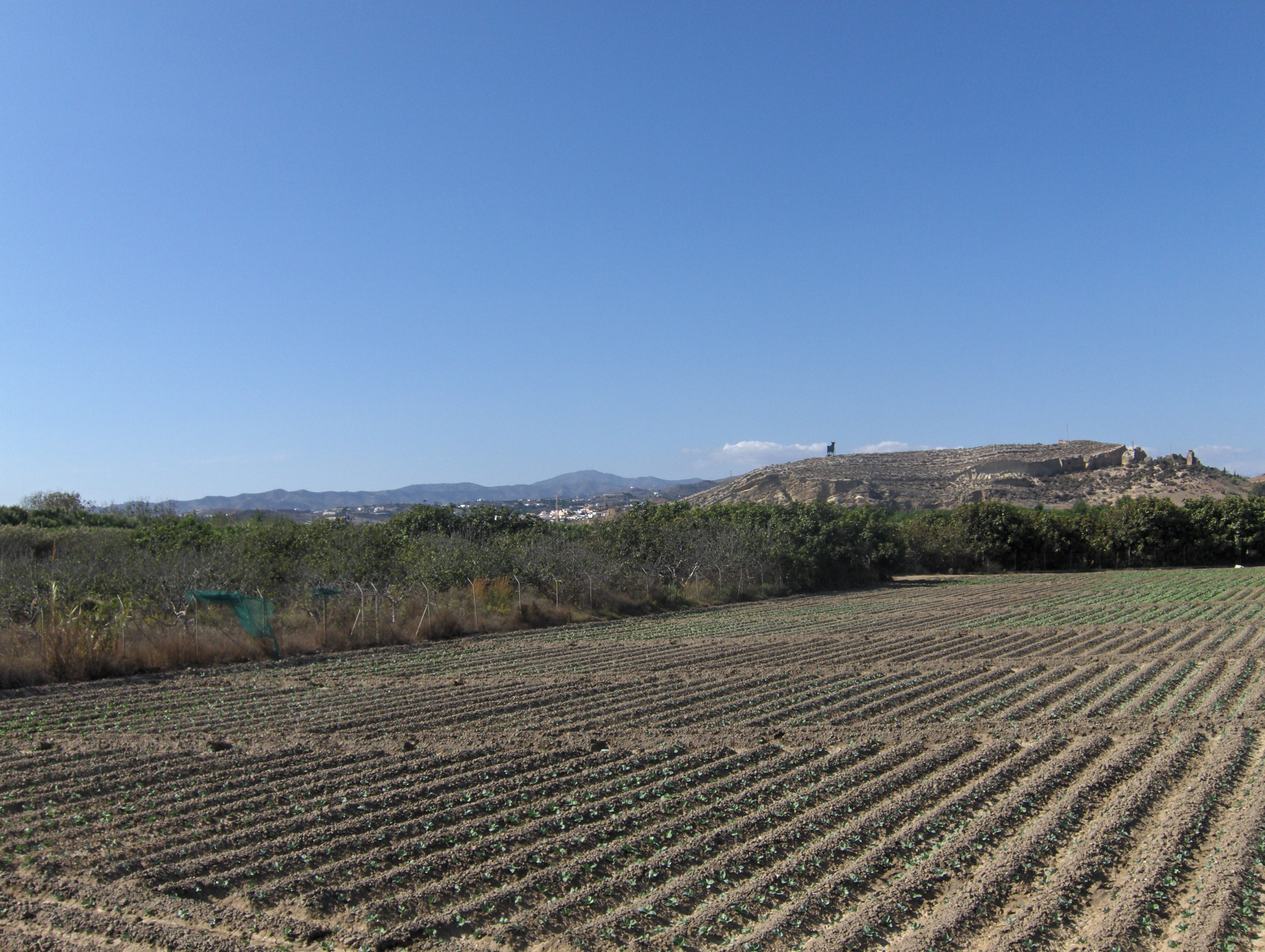 Peñón de Almayate, Spain.